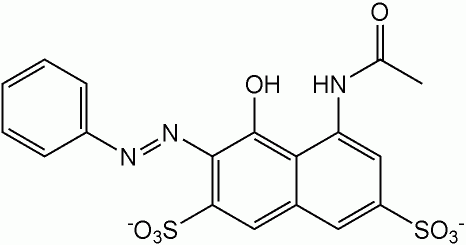 Description: Chemical structure of Red 2G Author, date of creation: selfmade by Shaddack, 0 November 2005 Source: self-made Copyright: Public Domain (PD) Comments: b/w hires PNG; ChemDraw